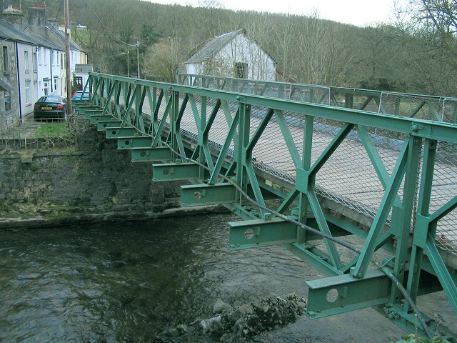 Bridge over the river Tawe west of Abercraf. This bridge joins right on to the main A4067 road. I would have said it was a wide footbridge, but the houses and cars on the other side, maybe not.